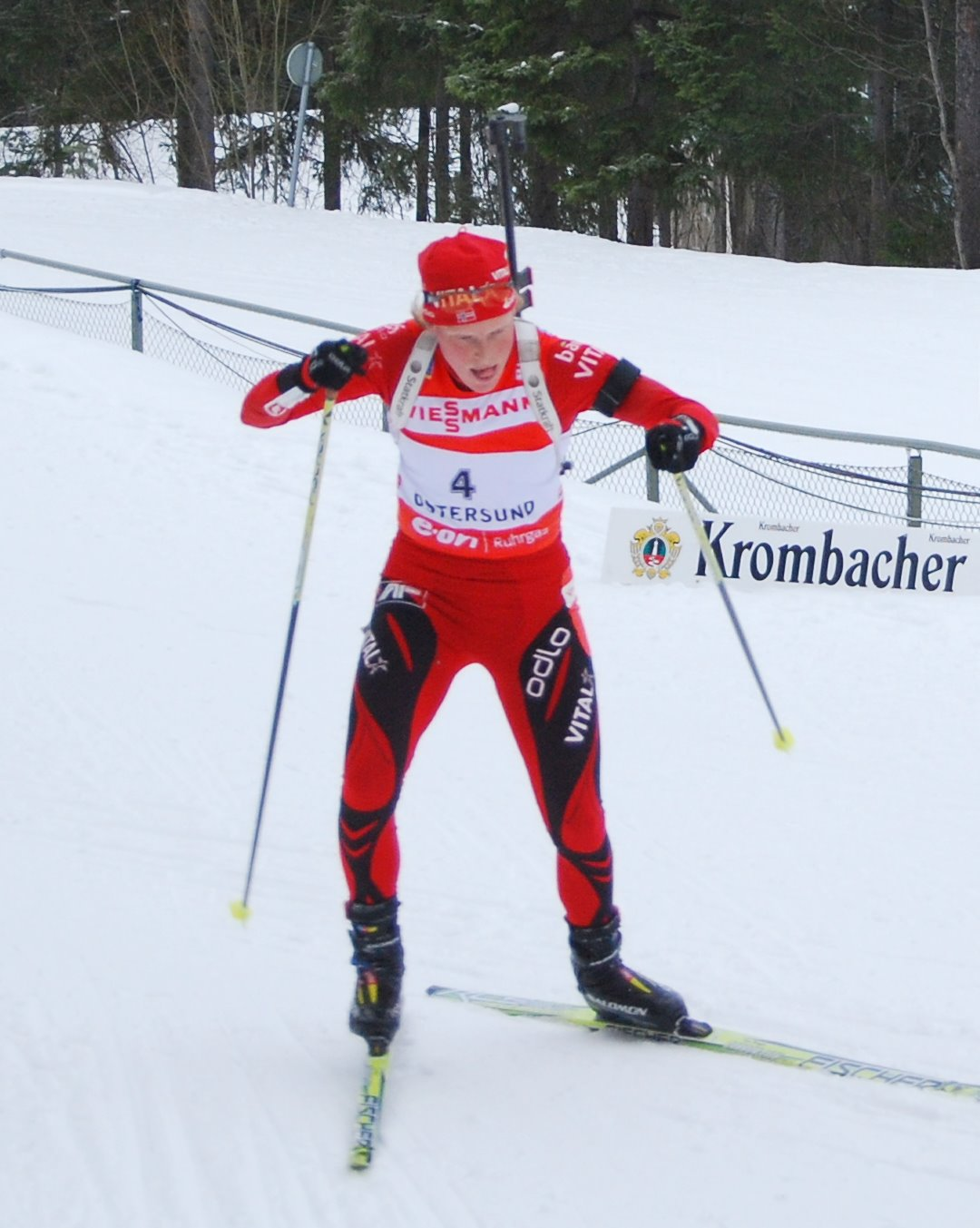 Norwegian biathlete Tora Berger during the World Championships in Östersund 2008.